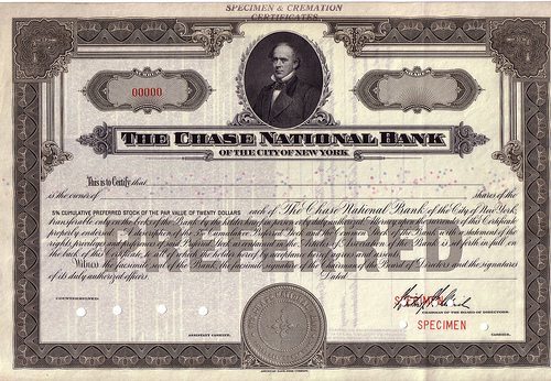 The Chase National Bank, Specimen Stock Certificate. Printed by American BankNote